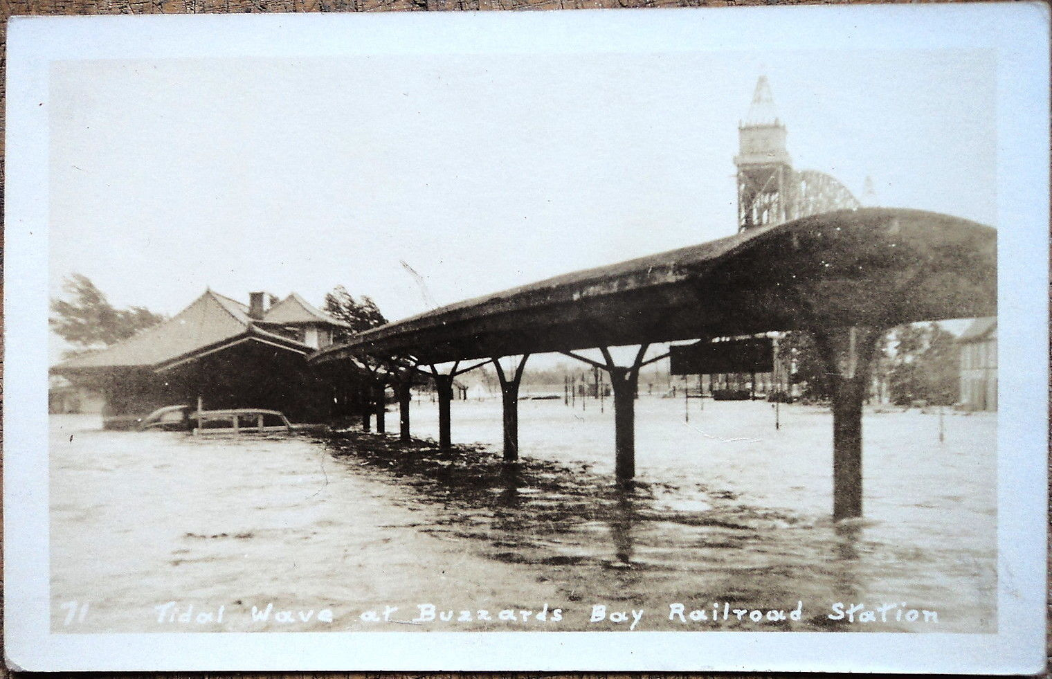 Divided back postcard of flooding at Buzzards Bay station during the 1938 hurricane